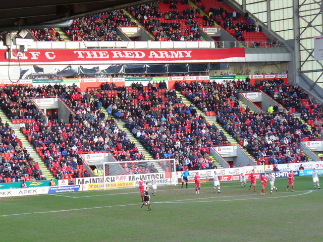 The Red Army, Pittodrie Stadium The lower Dick Donald Stand is at Pittodrie's Beach End. Dons are on their way to an unexpected 1-1 draw with St Mirren.